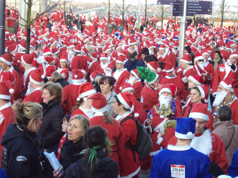 Some of the several thousand participants awaiting the start of the 2009 Santa Dash charity event at Liverpool, England.